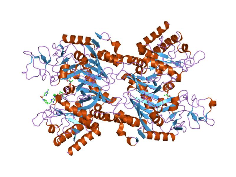 Cartoon representation of the molecular structure of protein registered with 2gmv code.